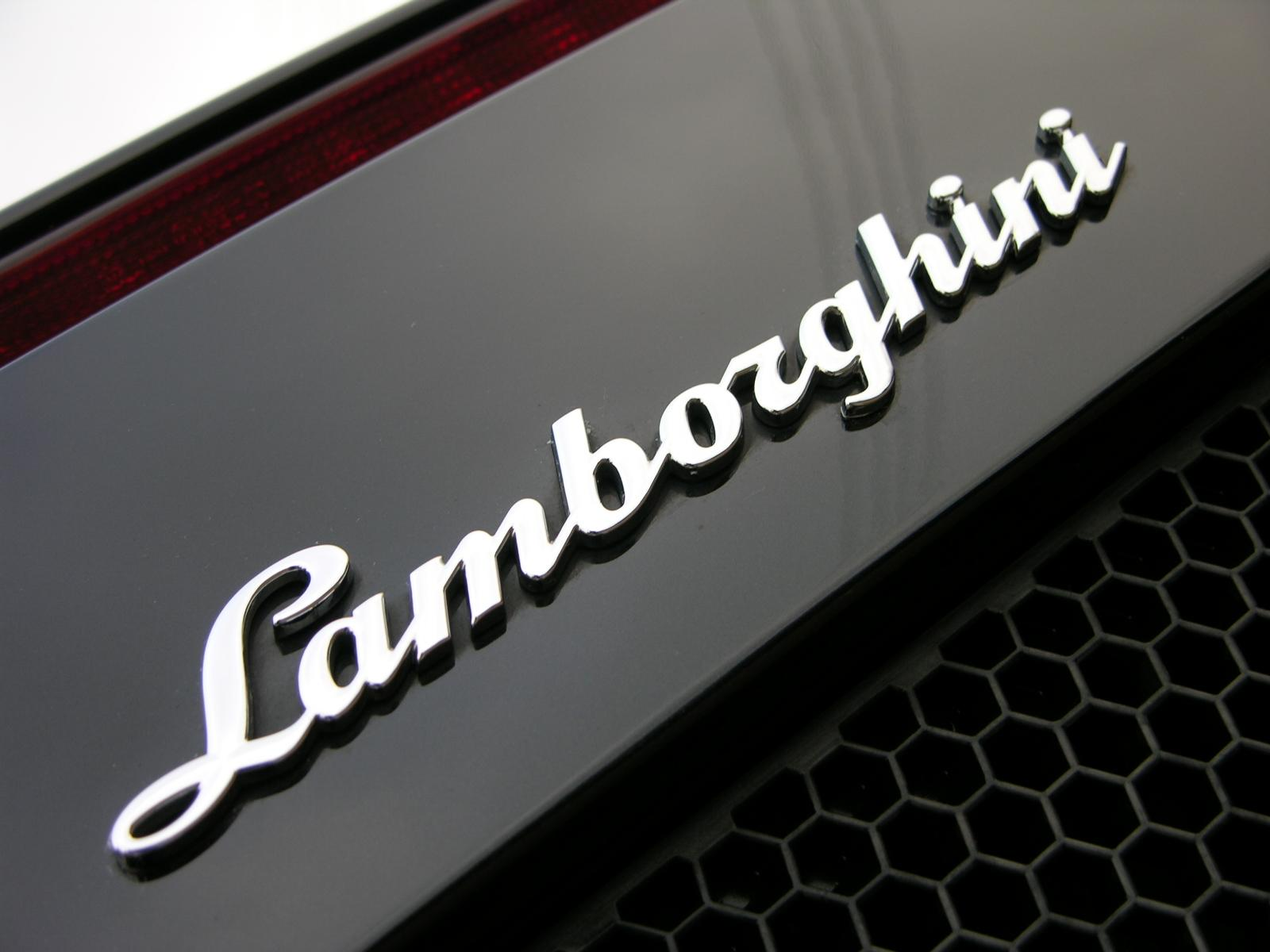 Lamborghini Gallardo Spyder E-Gear